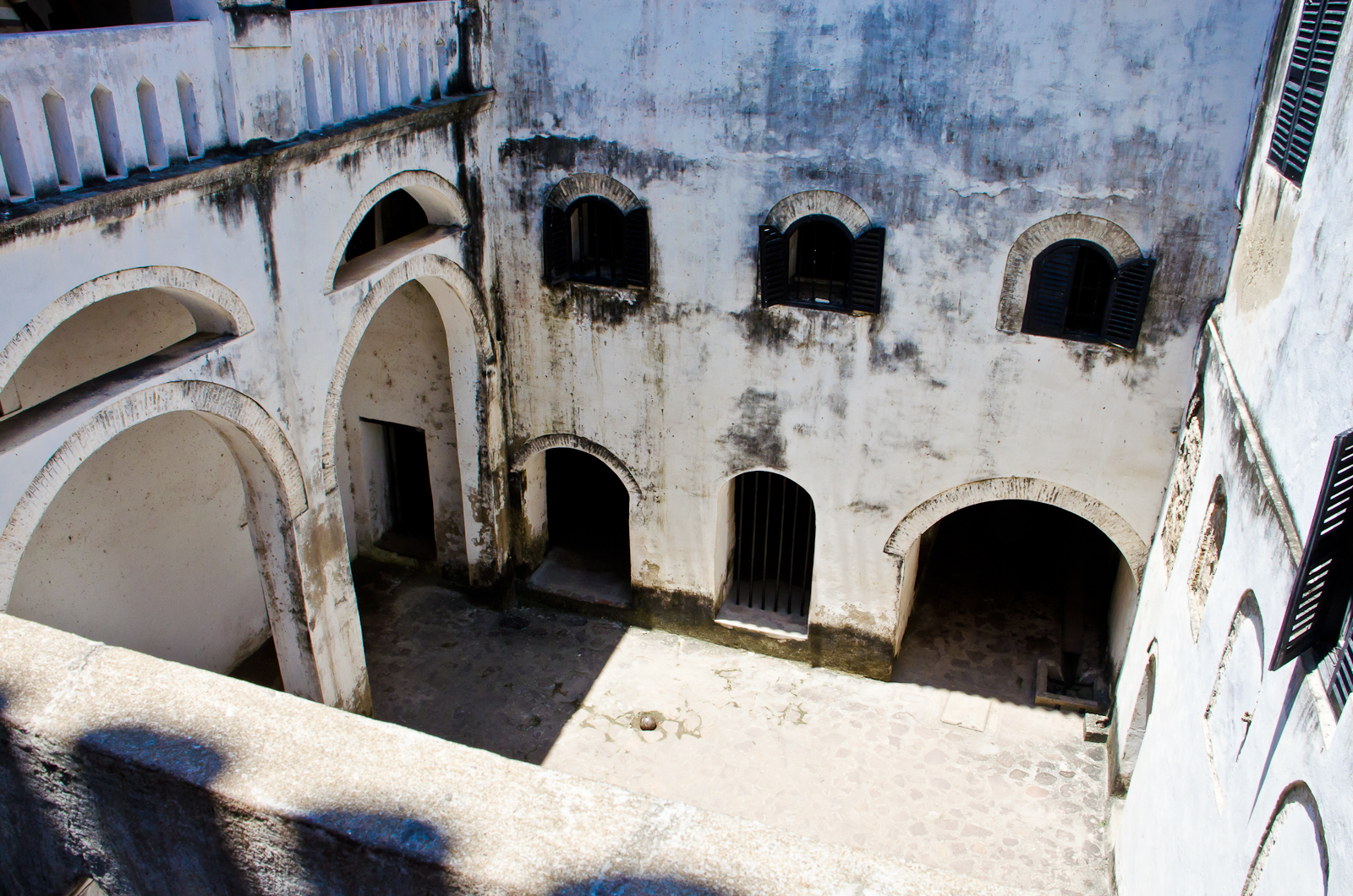 Photo of a smaller courtyard of Elmina Castle / Castle of St. George’s, in which female slaves were chained to the ground and left to die in the sun.